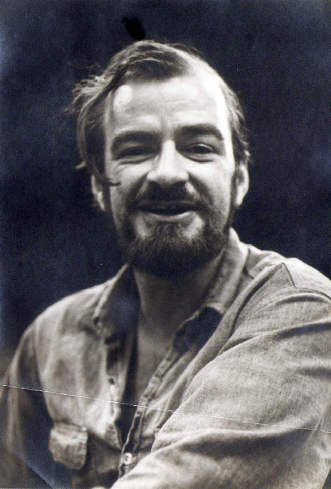 Photo of Christopher Stasheff in the doctoral program at the University of Nebraska circa 1969.